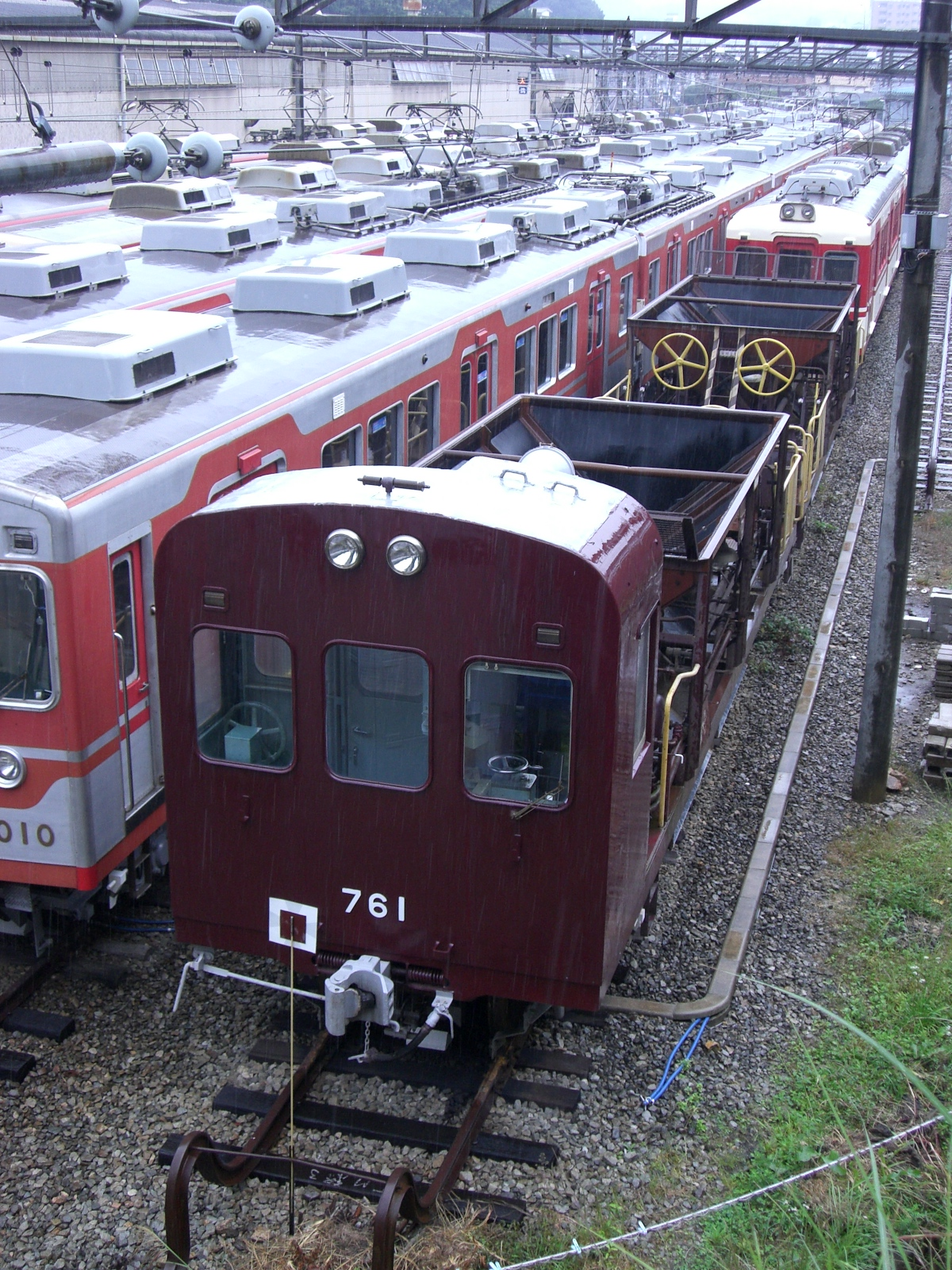 Kobe Electric Railway Kuho 761 hopper wagon at Suzurandai Depot